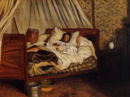 Oil painting reproduction of Frédéric Bazille.